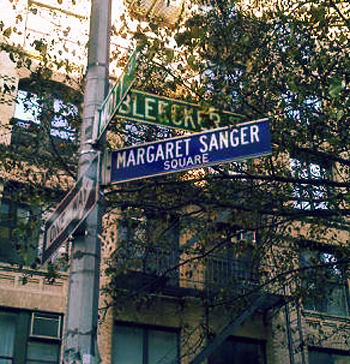 Margaret Sanger Square is the leafy intersection of Mott St. and Bleecker St. in New York City's NoHo section.